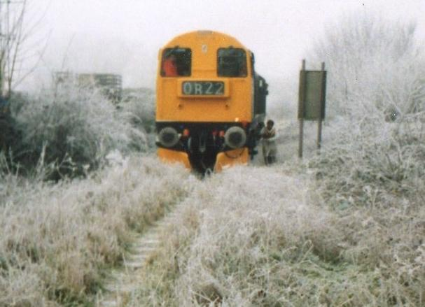 The first ever Mid-Norfolk Railway movement between Dereham and Yaxham